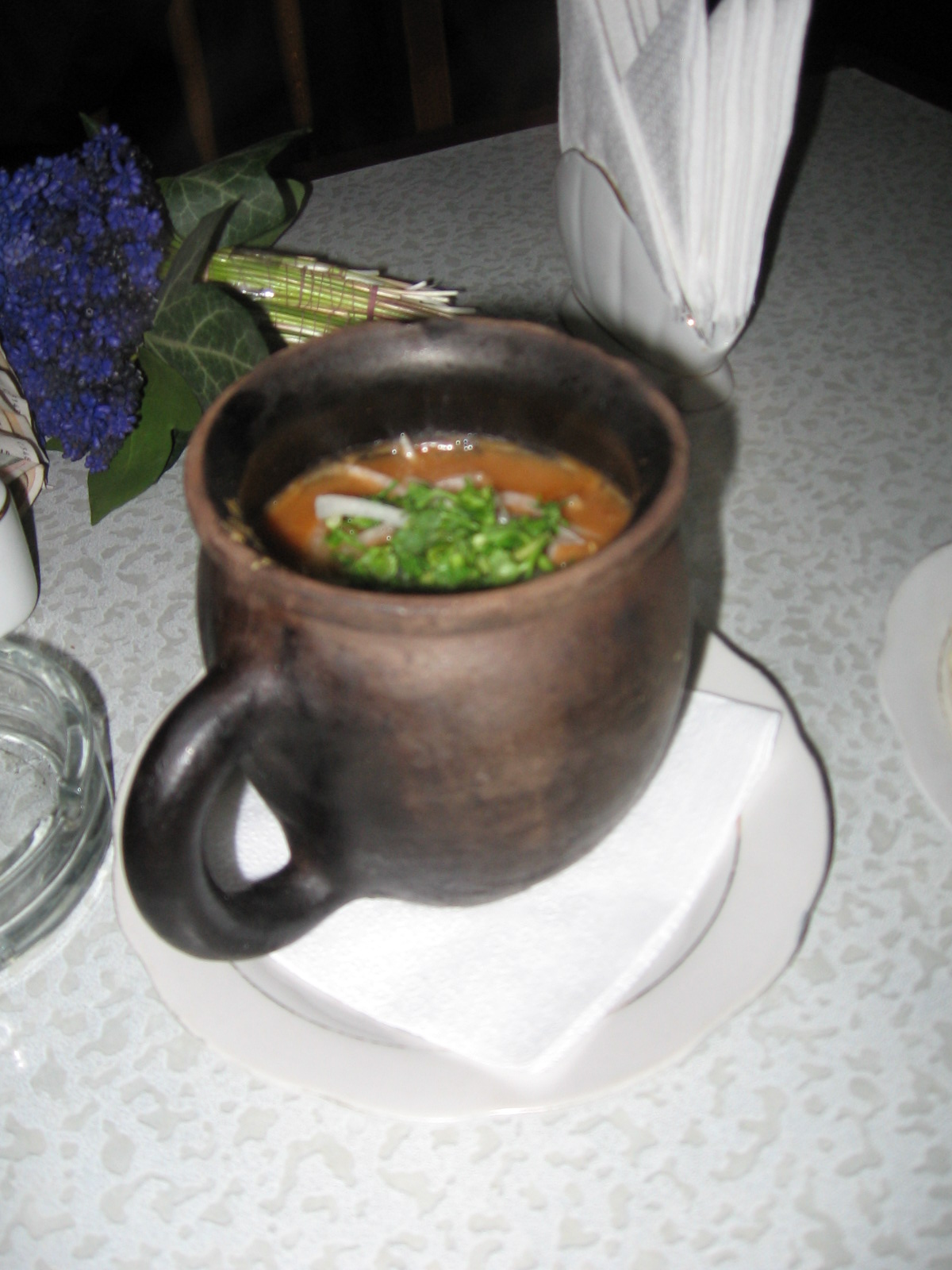 Pot cooked lobio.